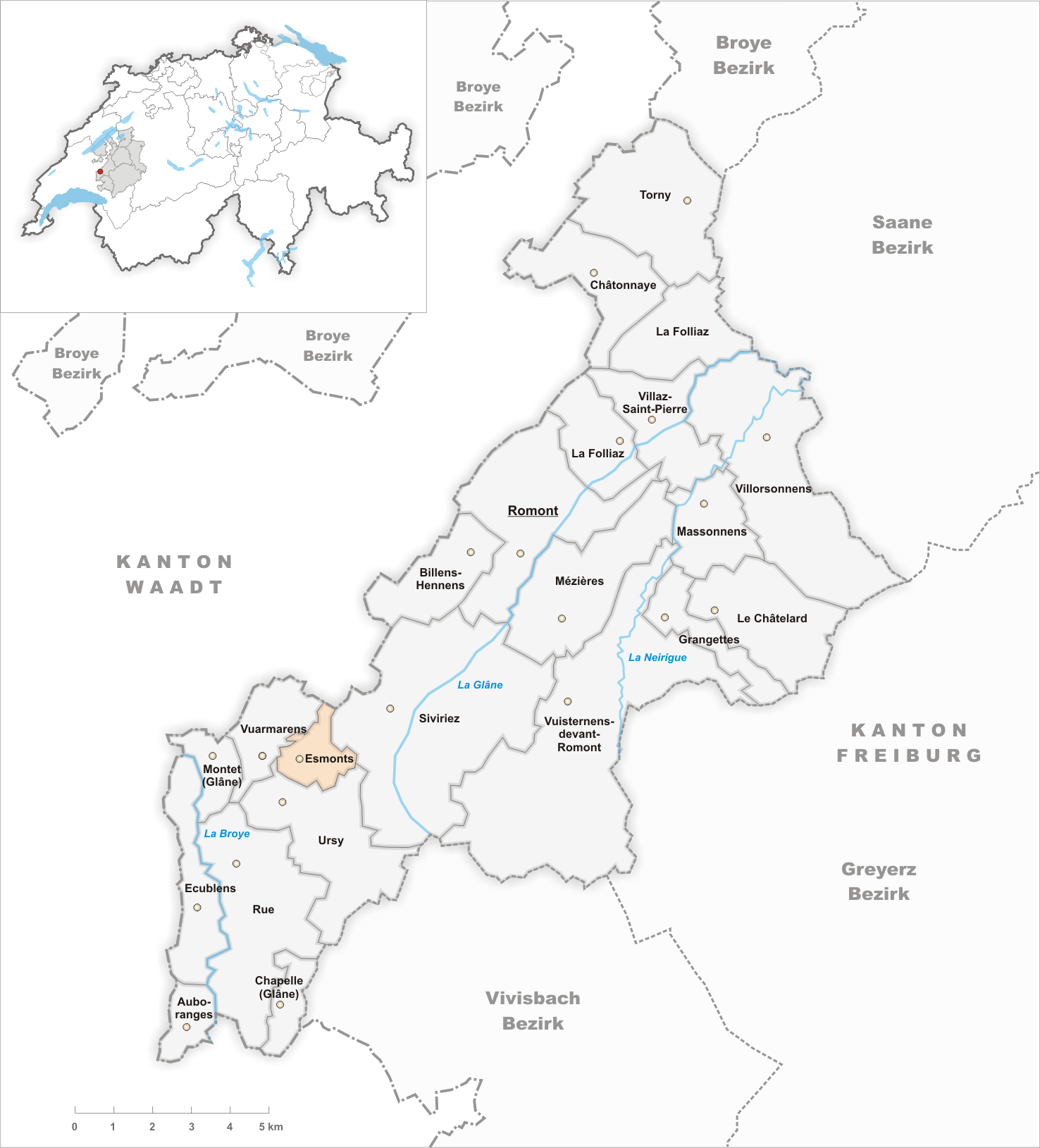 Municipality Esmonts Artist: Tschubby